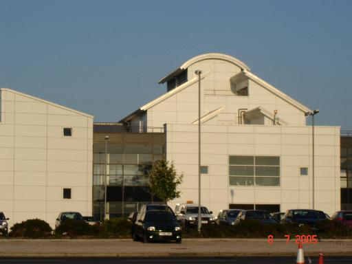 Glan Clwyd Hospital. The new Cancer Hospital on the site of Ysbyty Glan Clwyd